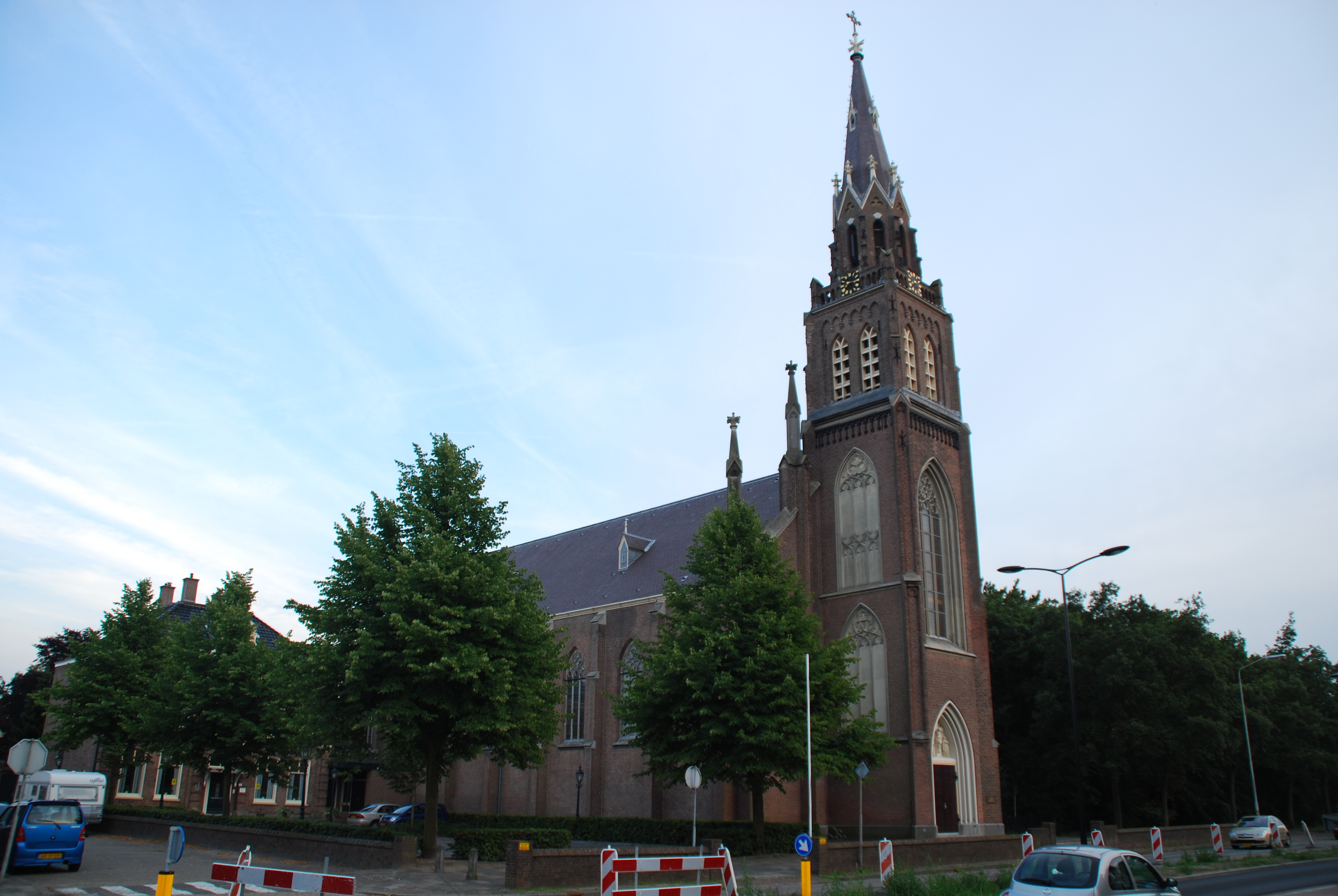 Laurentiuskerk Voorschoten, the Netherlands. Build 1865-1868 by Theo Asseler